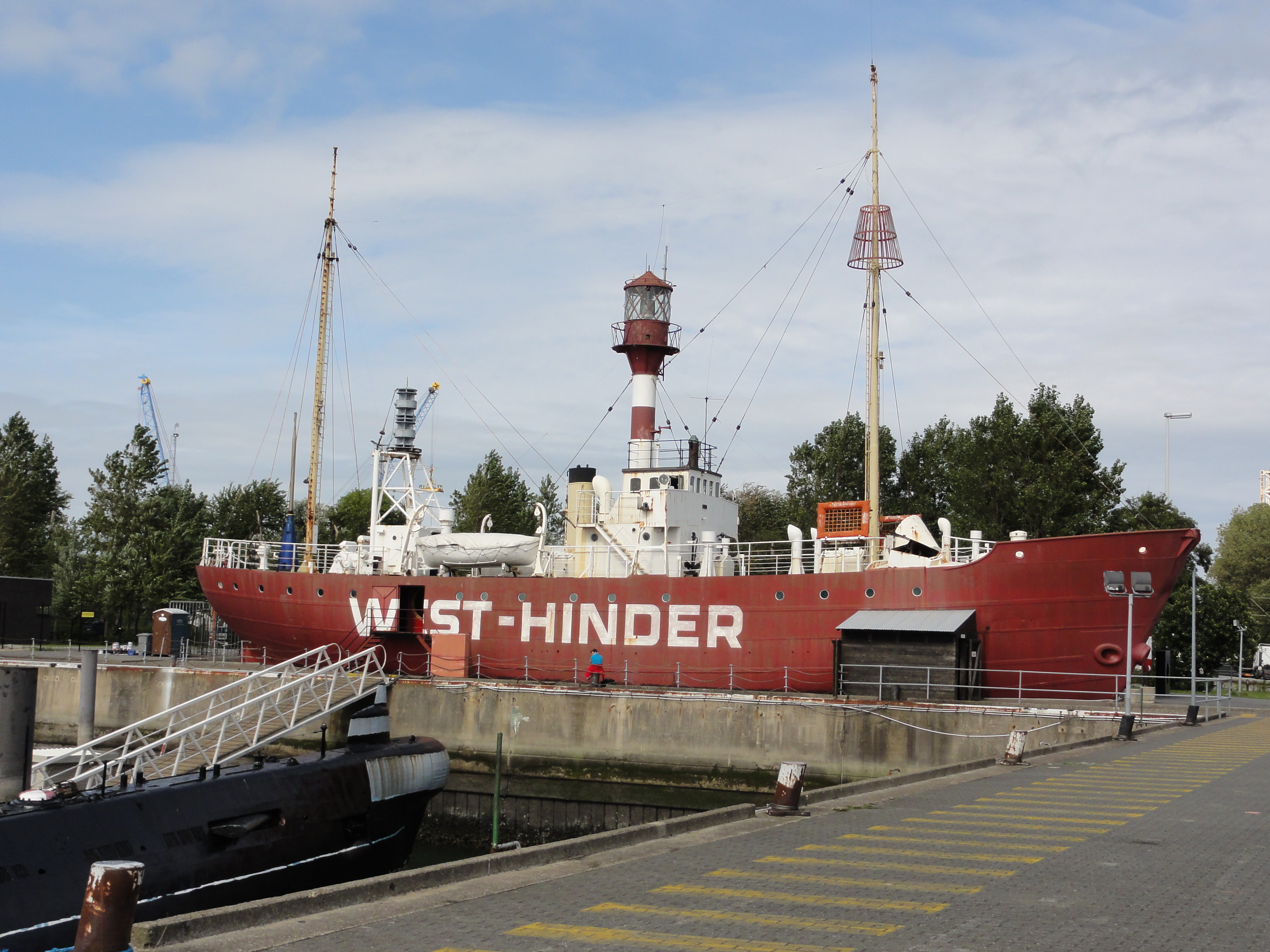 Lightship West-Hinder 2 in Zeebrugge. Zeebrugge, Brugge, West-Flanders, Belgium